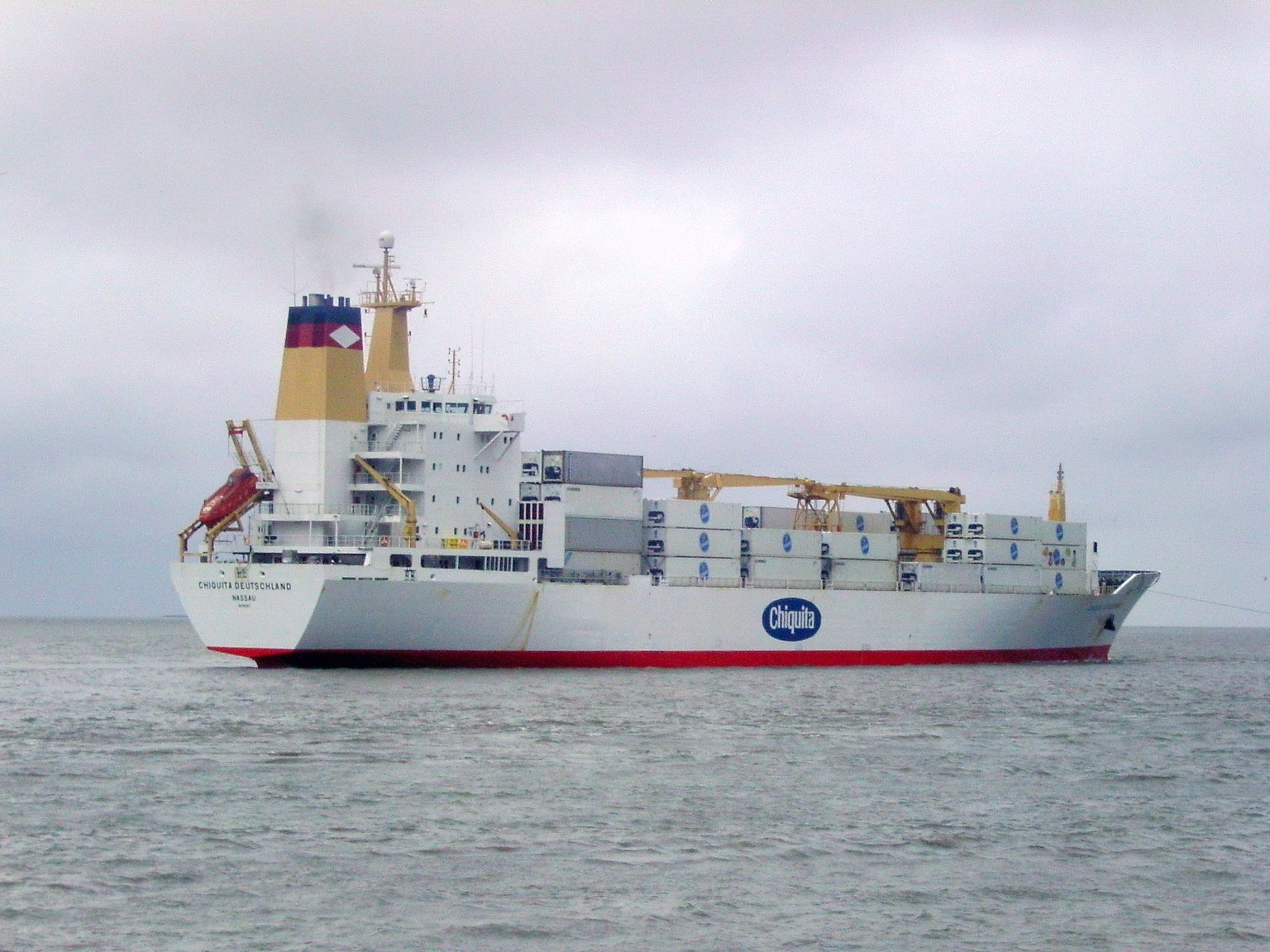 The reefer ship Chiquita Deutschland arriving at Bremerhaven, Germany